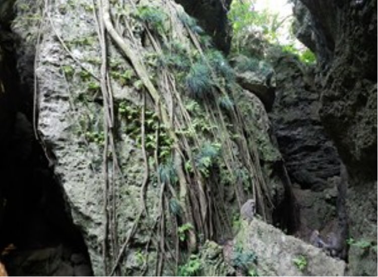 coral rock with Formosan Macaque, Shoushan, Kaohsiung